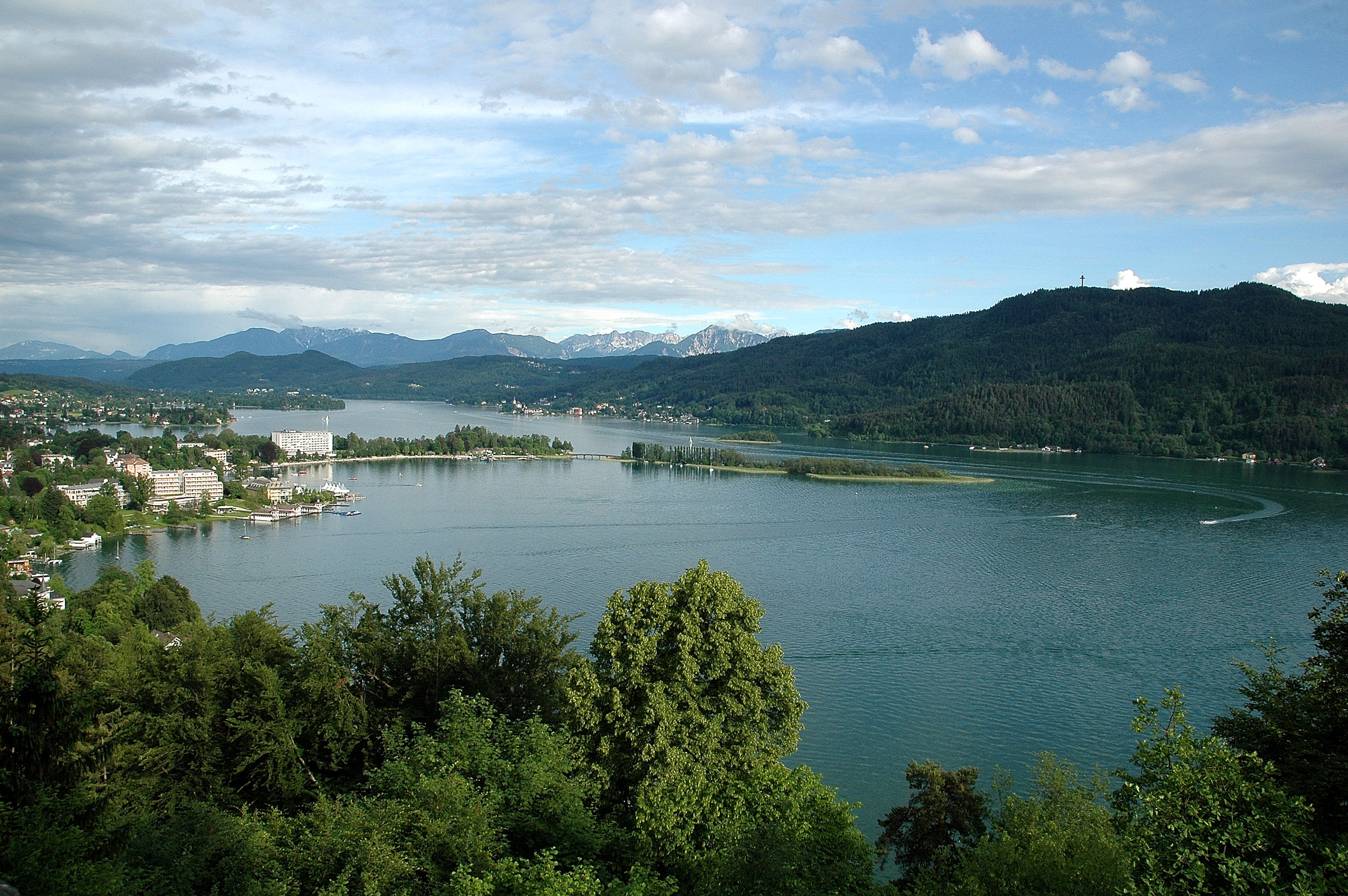 Poertschach by the Woerthersee, view from the High Gloriette